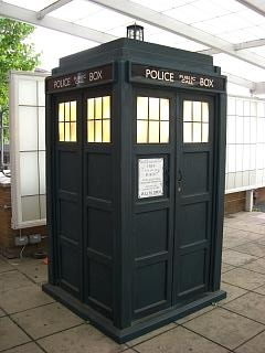 The current TARDIS seen at BBC TV Centre and taken by me Zir (talk) 23:04, 20 January 2009 (UTC) Please credit © if used outside of Wikipedia